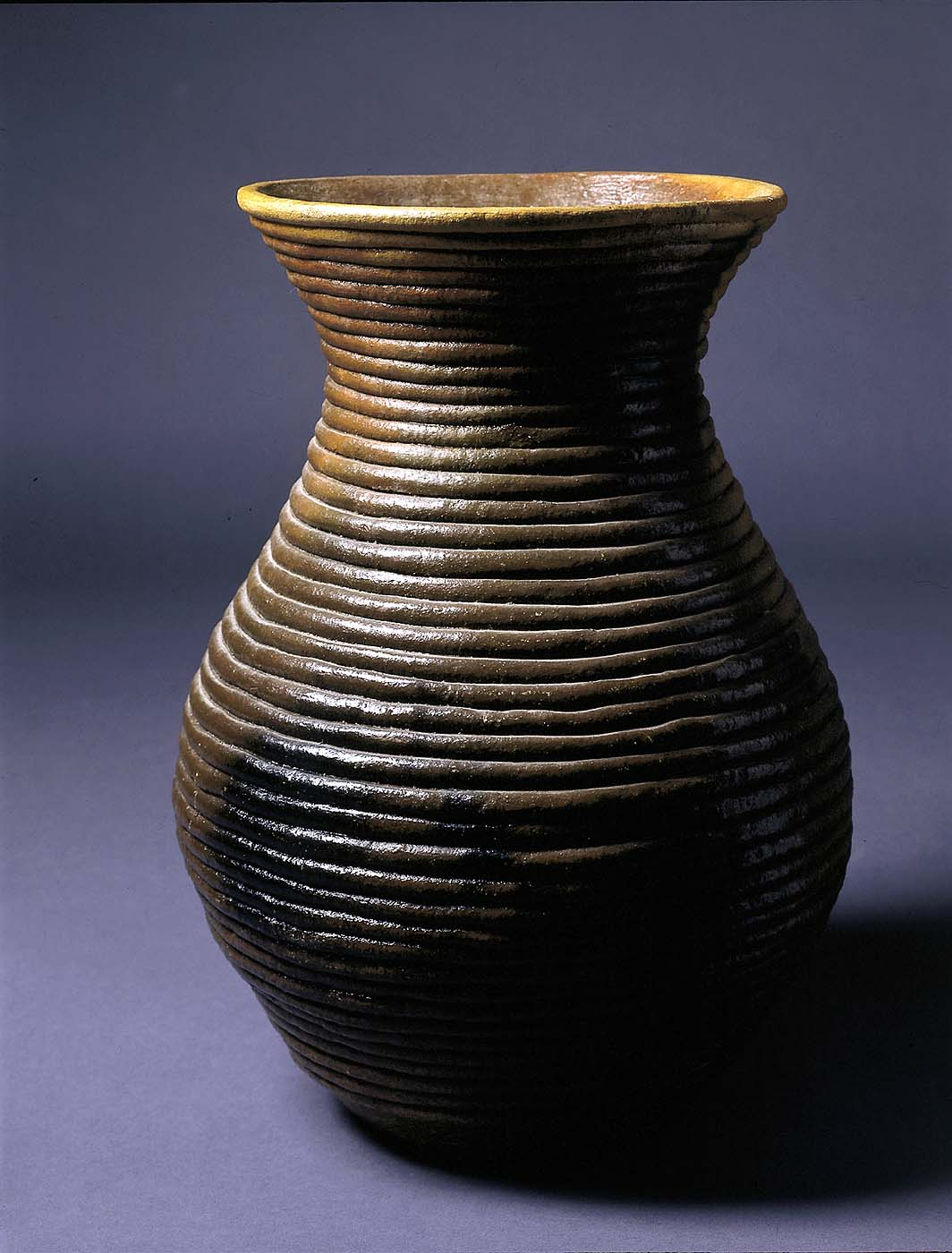 Coiled pot in fired clay with piñon pitch, Navajo 14 7/8 x 11 1/8 in. (37.8 x 28.3 cm) diam., Smithsonian American Art Museum, 1997.124.155.